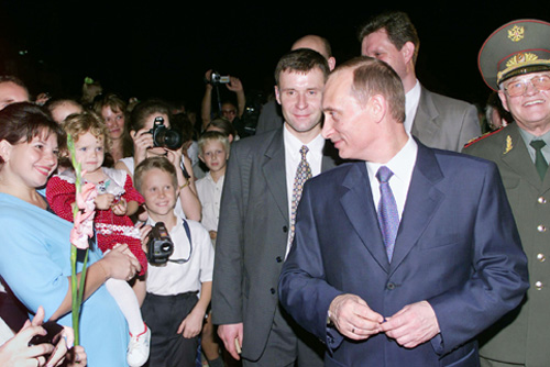 LOURDES, CUBA. President Putin visiting a Radio-Electronic Centre of the Russian Defence Ministry.